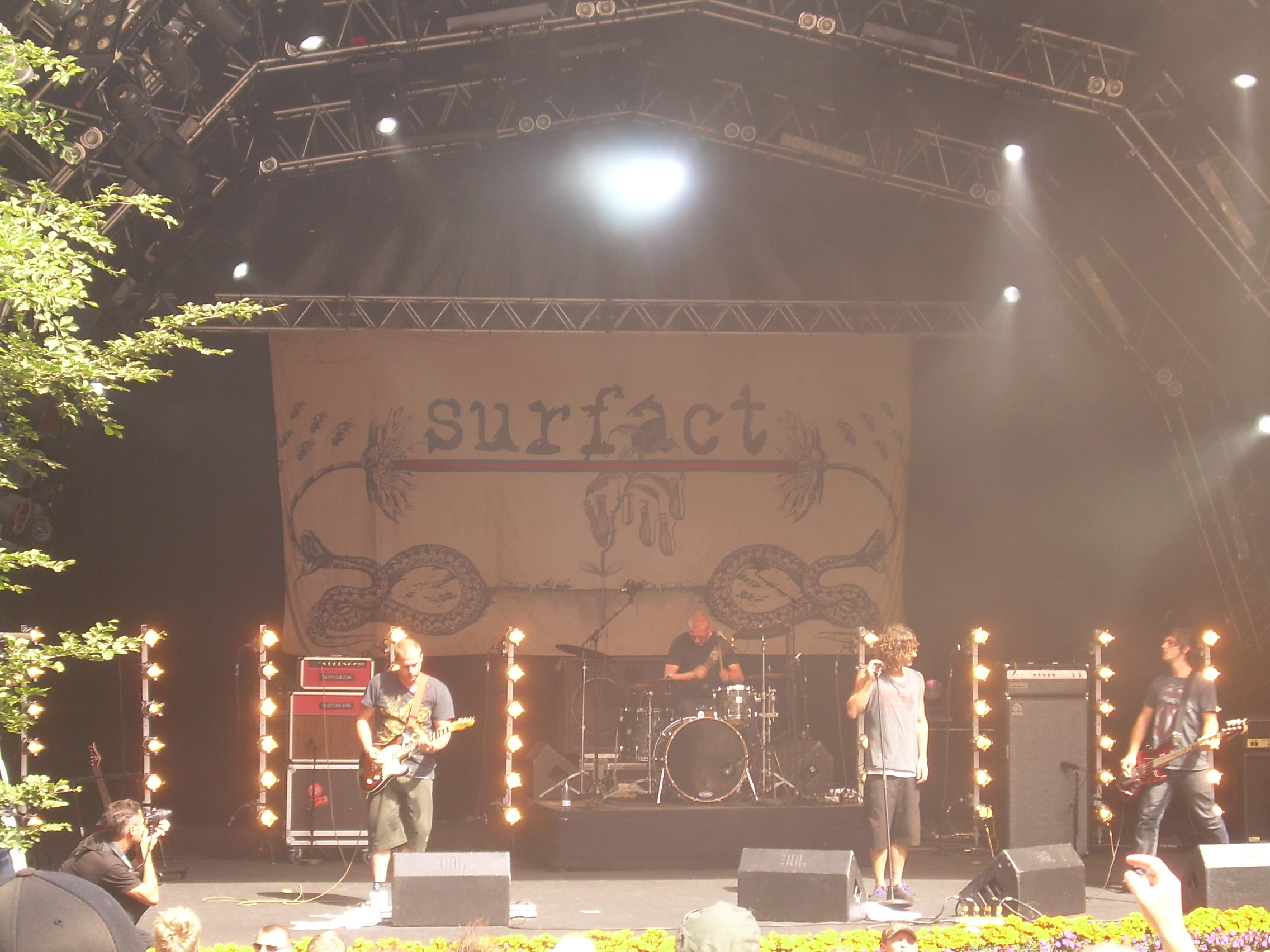 Photo of the danish band Surfact. Taken at Skanderborg Festival 2007.